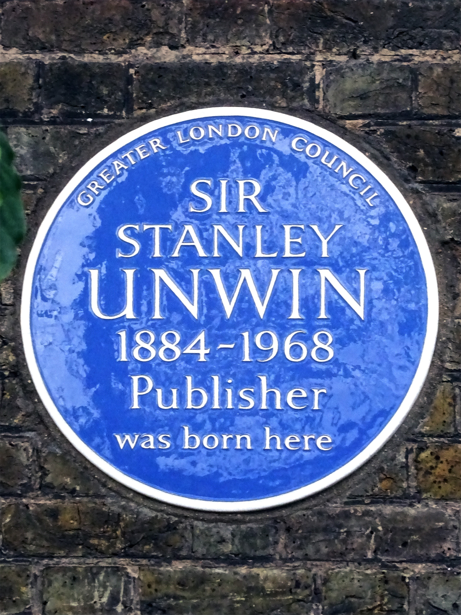 Blue plaque erected in 1984 by Greater London Council at 13 Handen Road, Lee, London SE12 8NP, London Borough of Lewisham